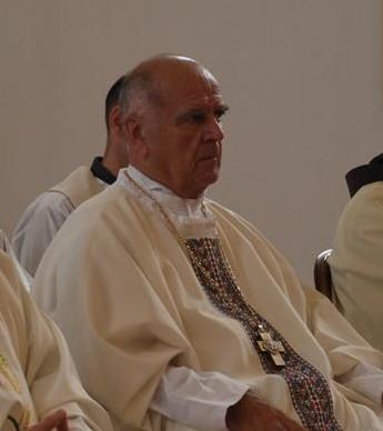 Croatian Bishop Ratko Perić from Bosnia and Herzegovina, image cropped from File:Vikar, biskup Ratko Perić i fra Lovro Gavran 111424.JPG